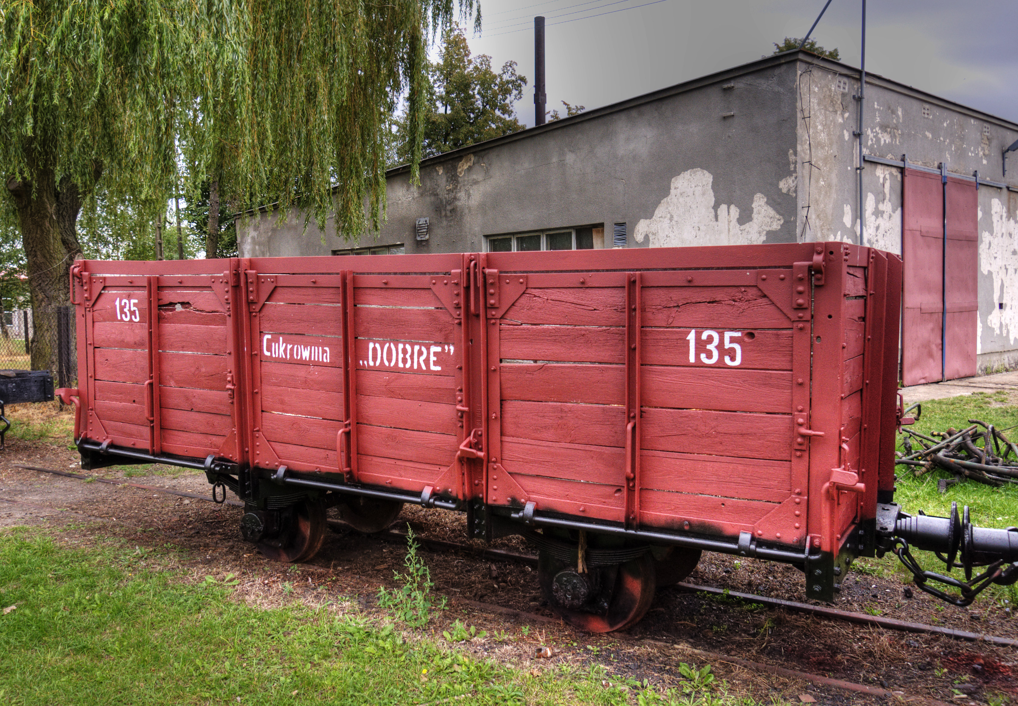 Rogów railway museum